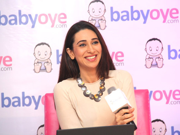 Karisma Kapoor at online store for baby products